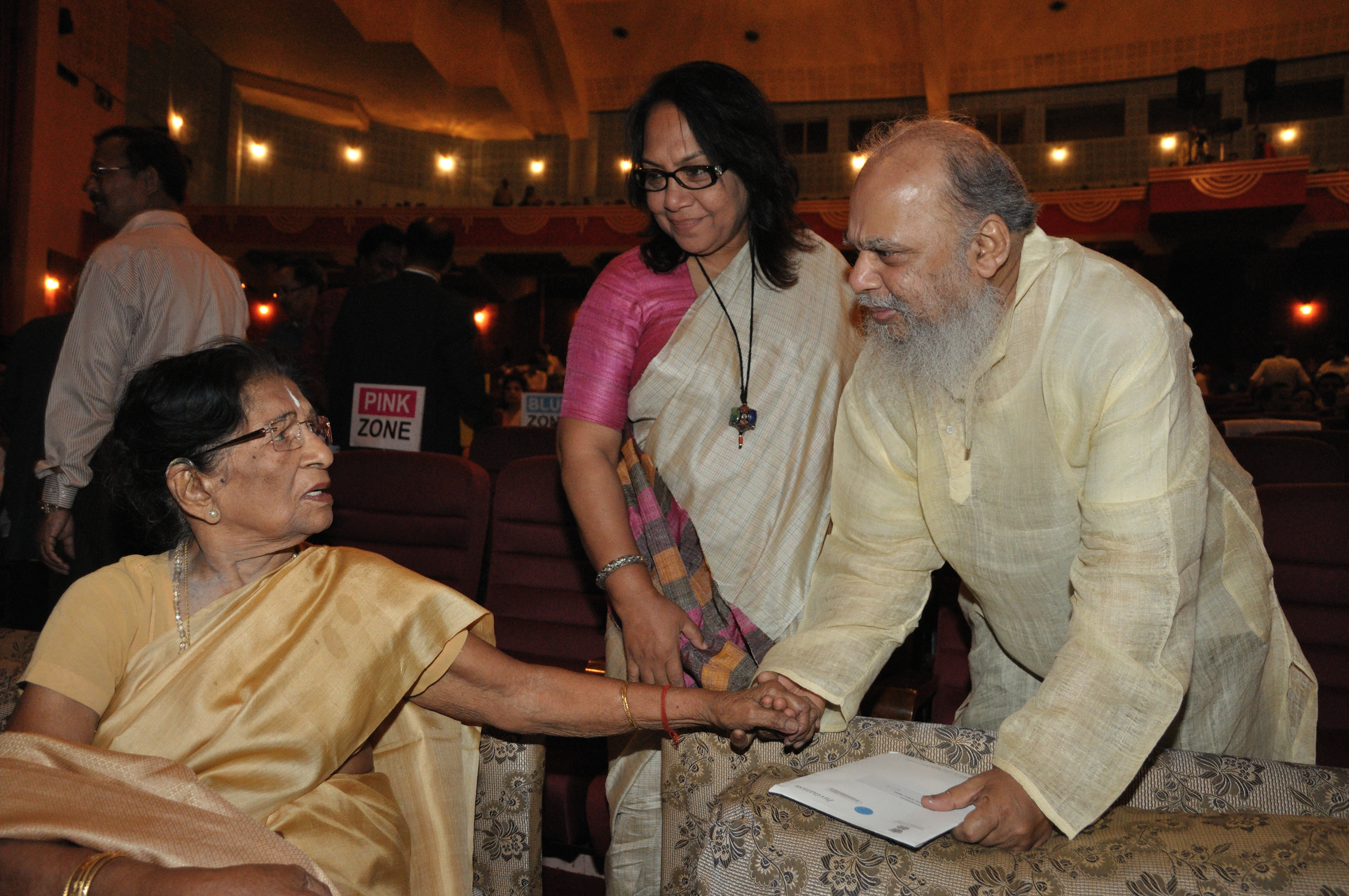 Noted people.